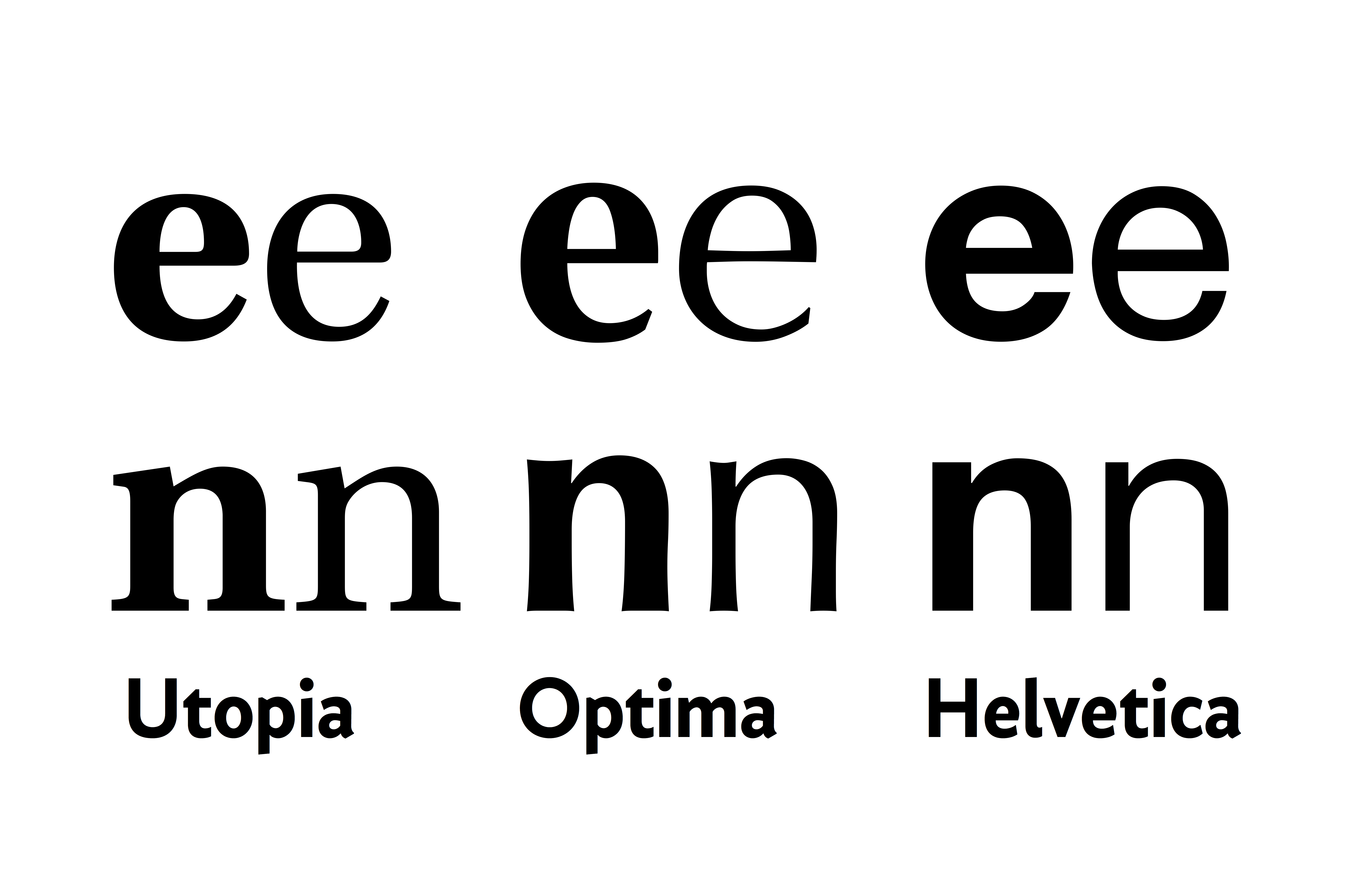 A diagram of how bold fonts are designed. Normally, it is by increasing the contrast, making the thick strokes much bolder while the narrow strokes and joins such as on an 'n' only get slightly bolder. Helvetica's 'e' has a monoline construction, so on it all strokes get bolder. (The font used for the captions is Matthew Butterick's Concourse, incidentally.)